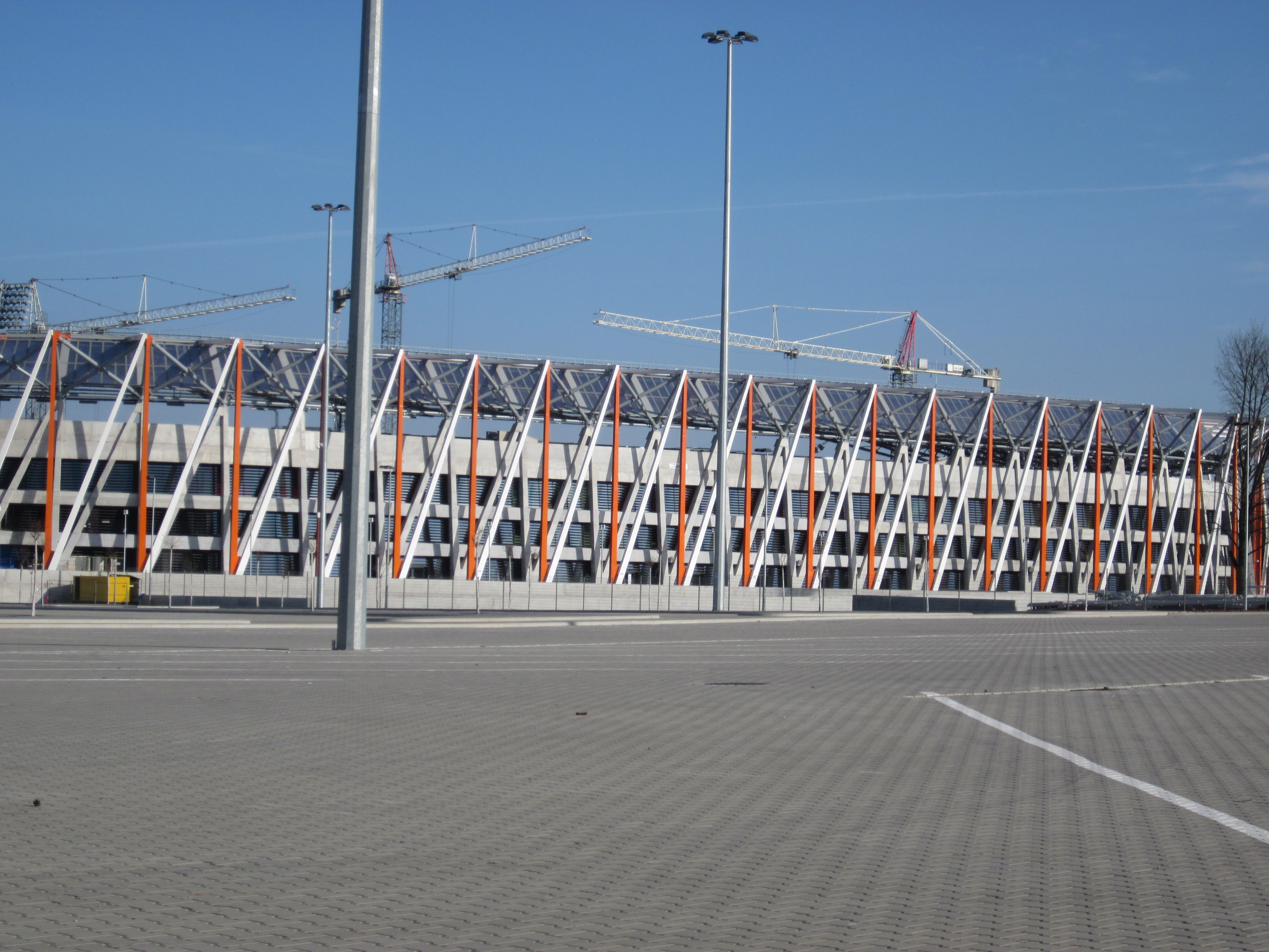 Construction of the Białystok Municipal Stadium